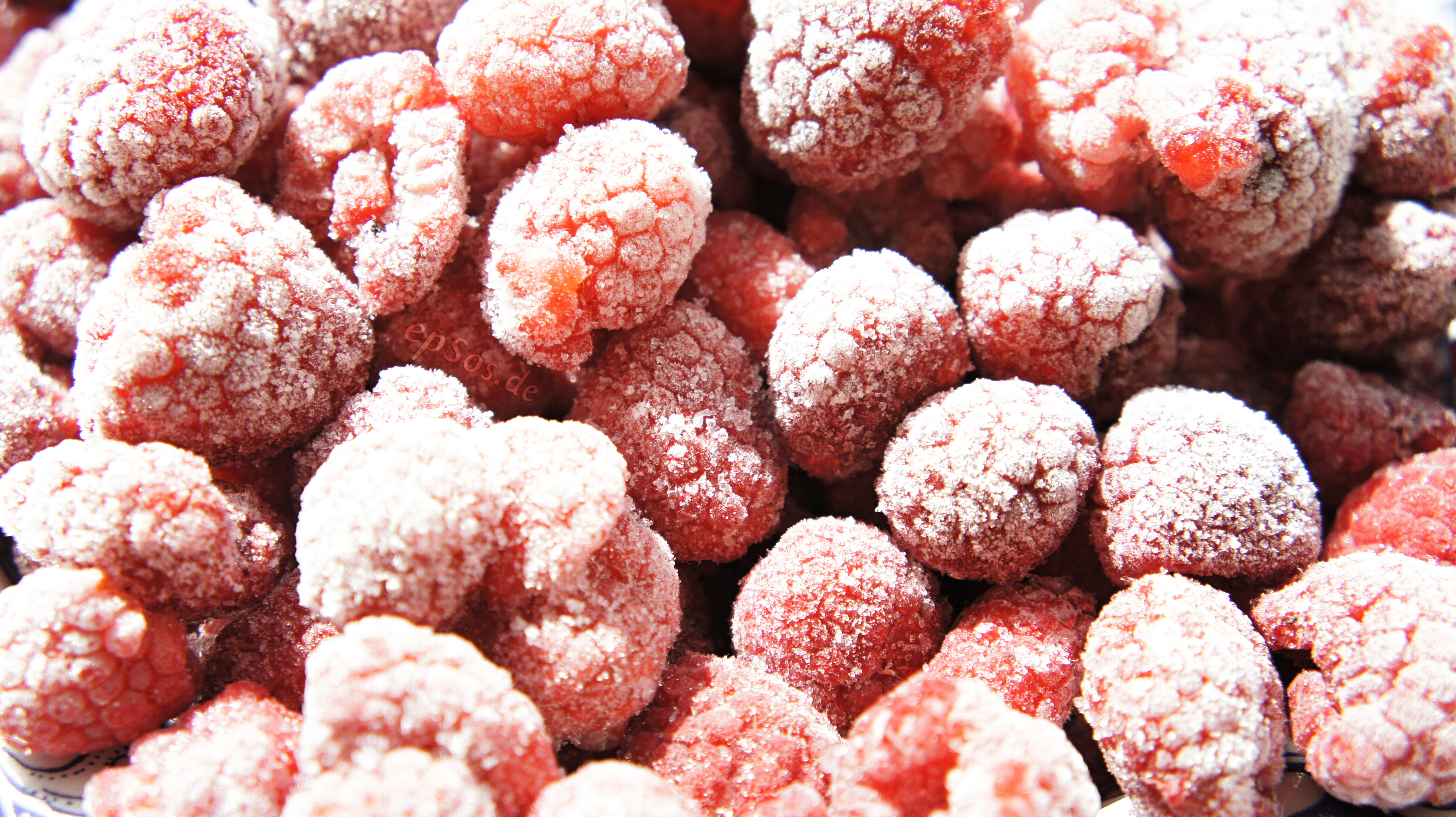 The raspberry or hindberry is the edible fruit of a multitude of plant species in the genus Rubus, most of which are in the sub-genus Idaeobatus; the name also applies to these plants themselves. Raspberries are perennial. This photo was created by my magic friend epSos.de. This beautiful picture can be used for free, if you link epSos.de as the original author of the image. Freezing or solidification is a phase change in which a liquid turns into a solid when its temperature is lowered below its freezing point. Raspberries are very vigorous and can be locally invasive. They propagate using basal shoots; extended underground shoots that develop roots and individual plants. Freezing is an exothermic process, meaning that as liquid changes into solid, heat and pressure is released. Thank you for sharing this picture with your friends !